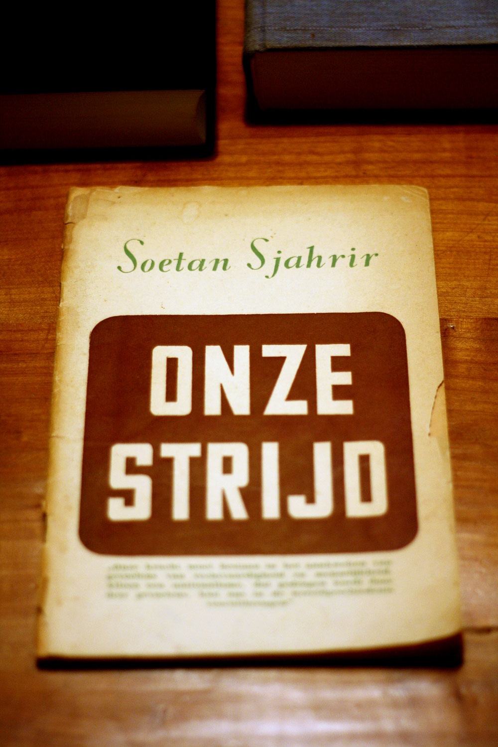 Soetan Sjahrir's "Onze Strijd" Bookcover. (antiquarian specimen) First edition of 9,000 pamphlets and second edition of an additional 8,000 pamphlets printed in Holland by ‘Cloeck & Moedigh’published in the Dutch language by Uitgevery ‘Vrij Nederland’Amsterdam under the supervision of ‘Perhimpoenan Indonesia’ in 1946.